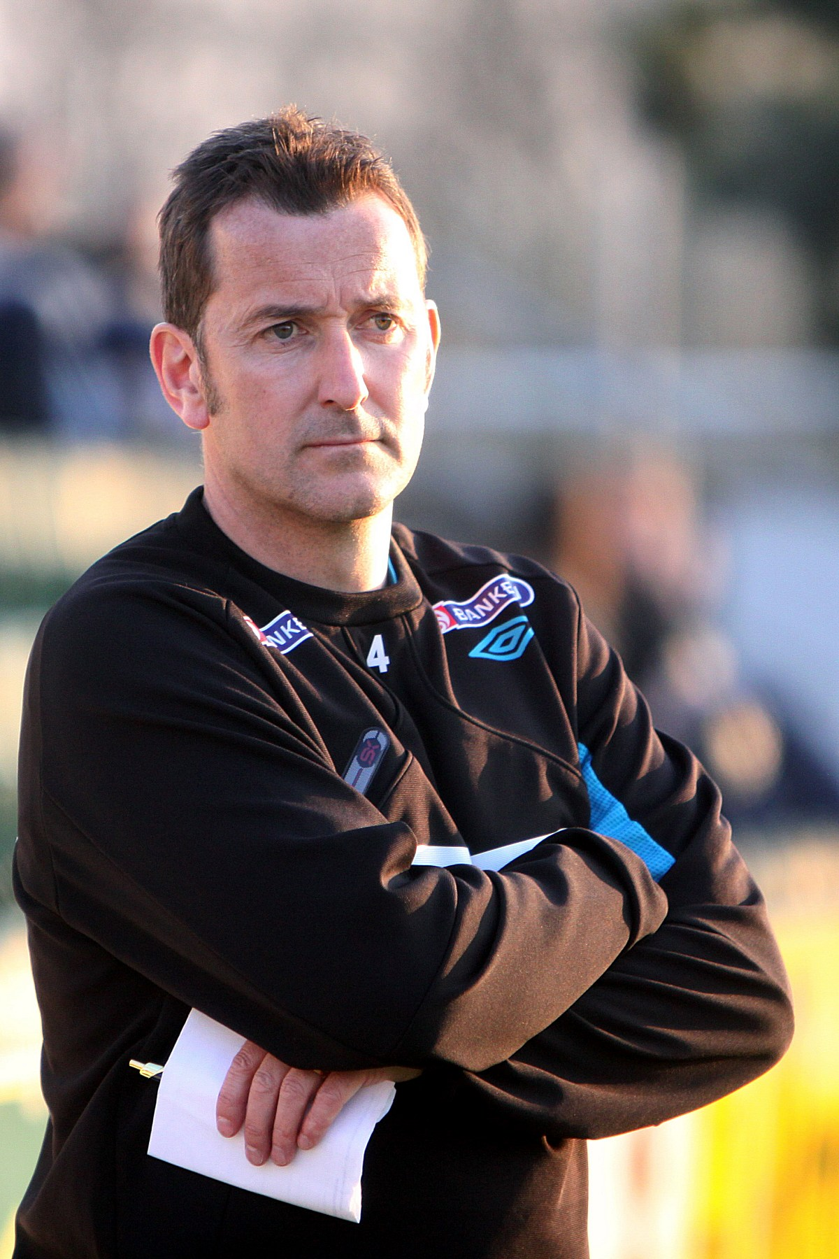 Per Joar Hansen, Coach of the Norway national under-21 football team (2011-03-29)